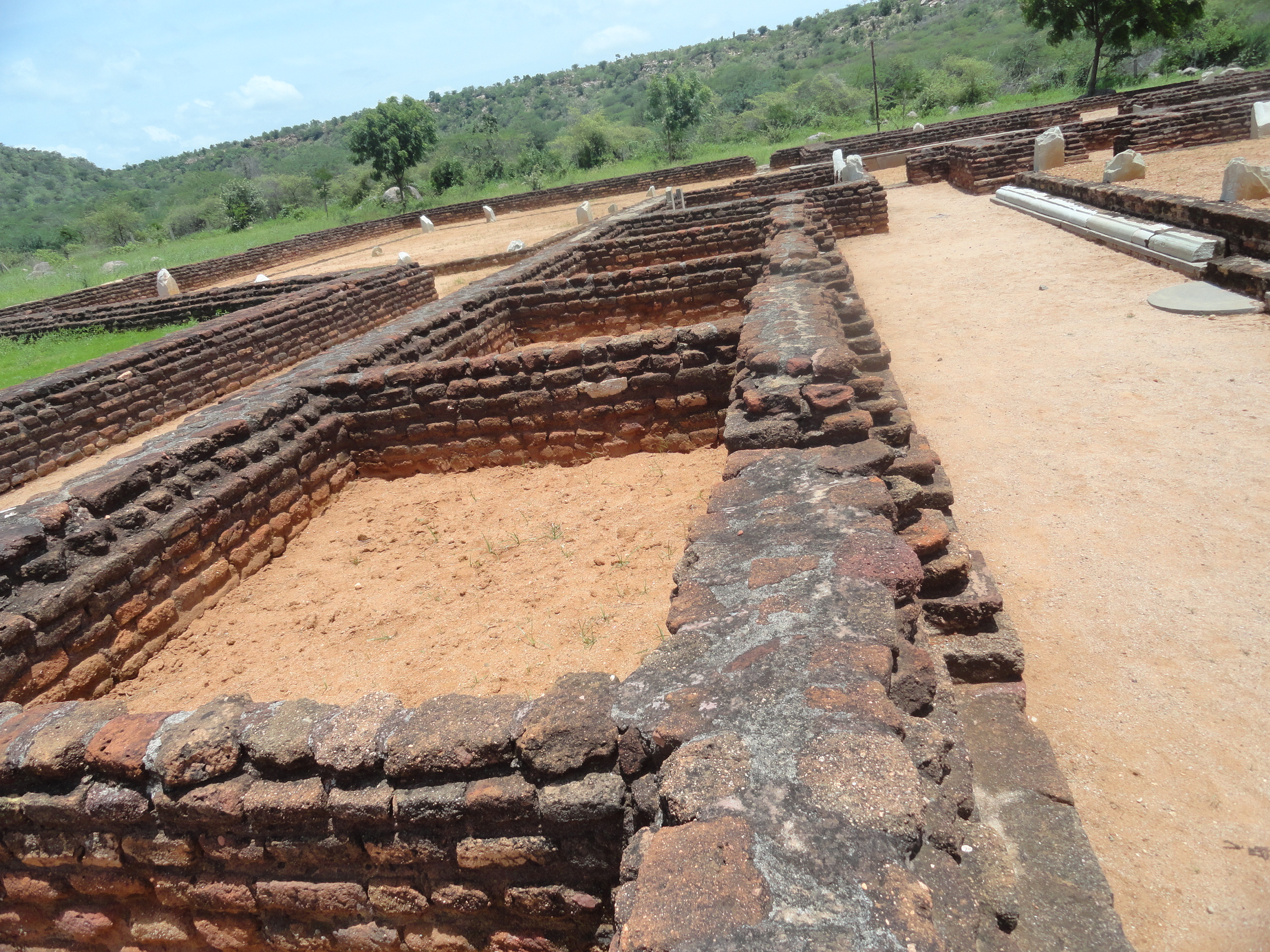 అనుపు వద్ద నాగార్జునుని కాలంనాటి కట్టడాలు. 14